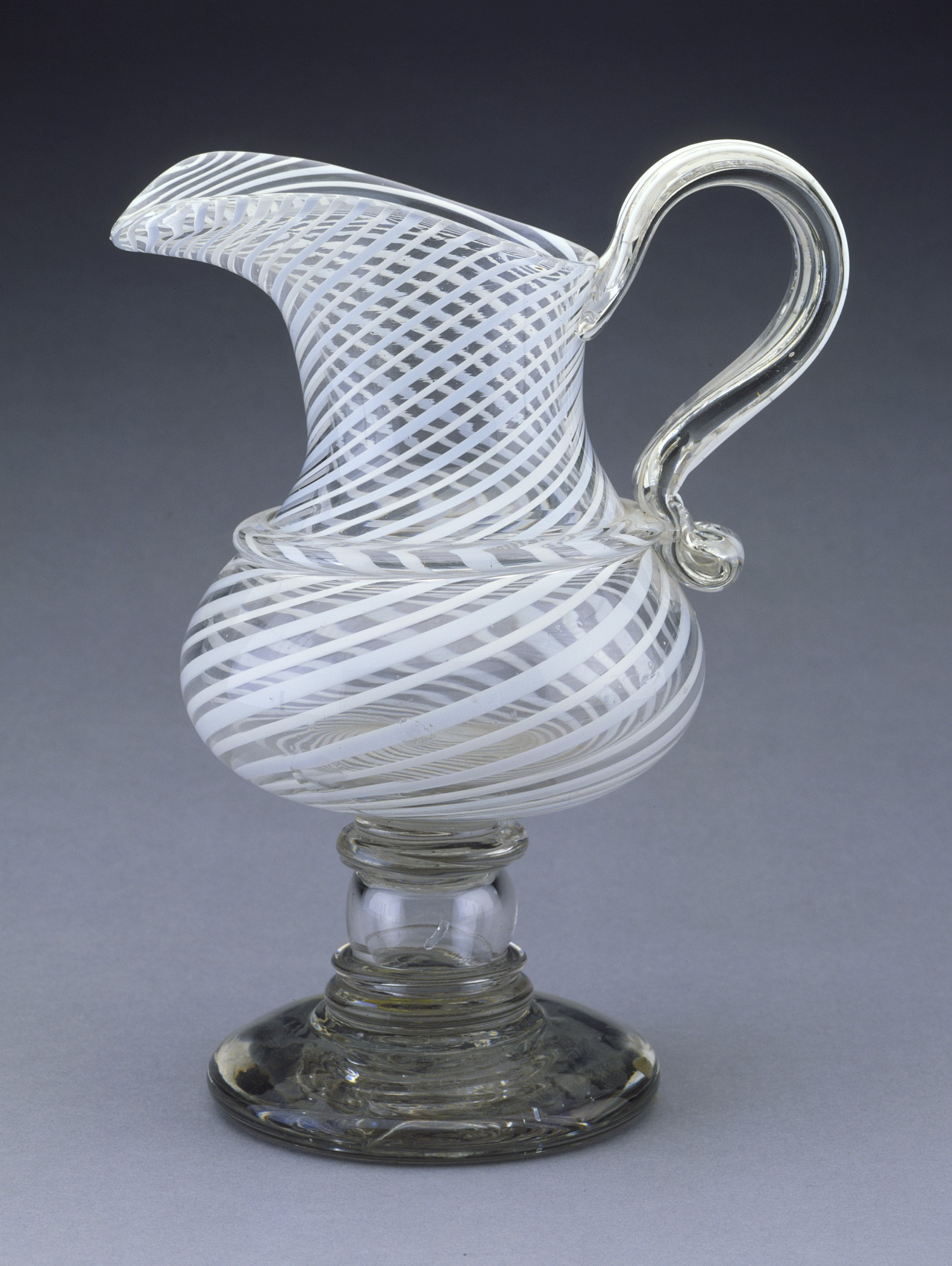 United States, 1840-1860 Furnishings; Serviceware Blown glass Gift of the Reverend W. Daniel Quattlebaum, in memory of Edith Brockett Quattlebaum (56.35.182) Decorative Arts and Design